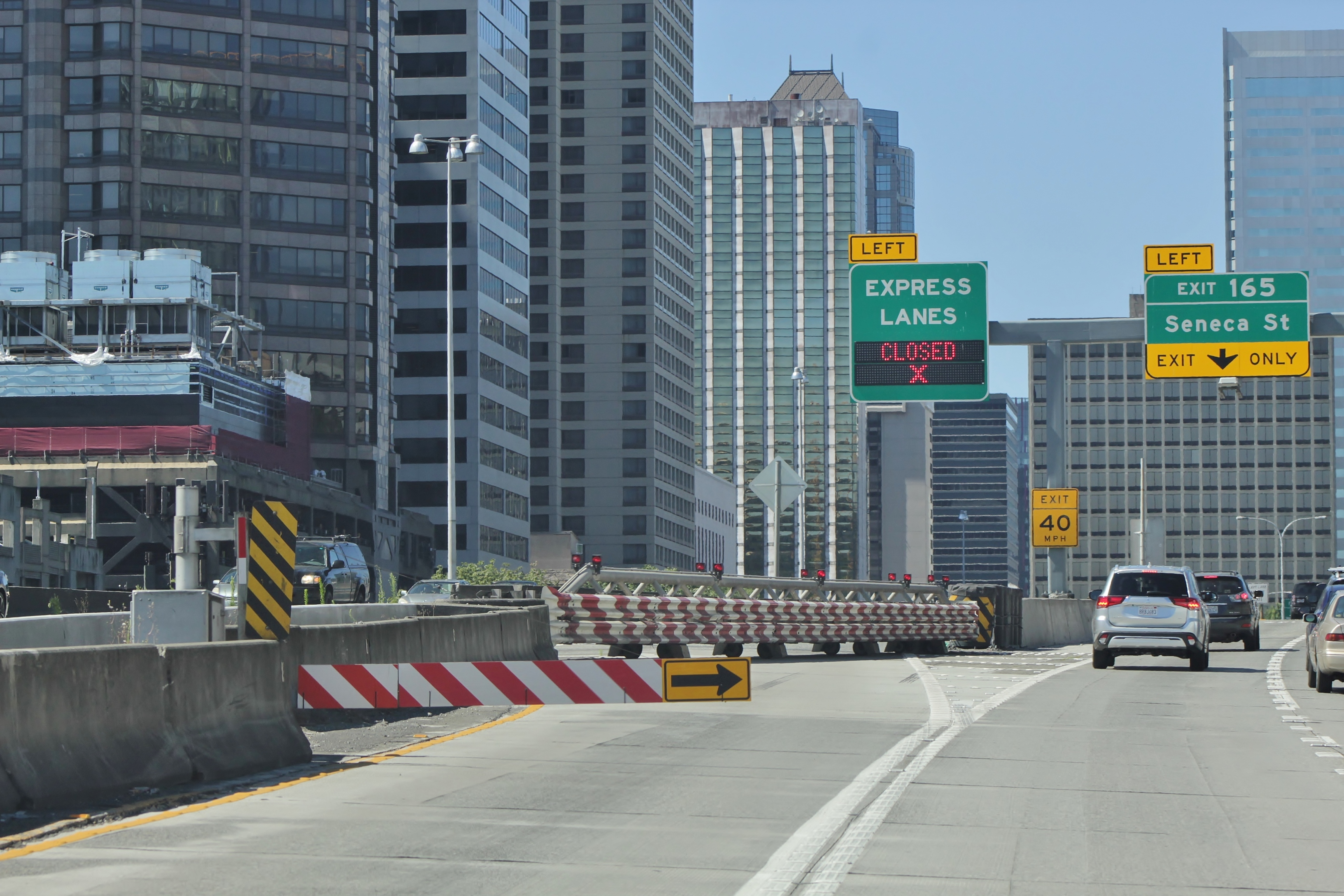 The northbound entrance to the Interstate 5 reversible express lanes in Seattle, Washington. The lanes are controlled by signage and barriers.